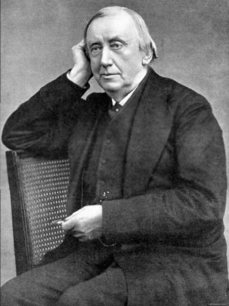 Depicted person: Charles Hallé – pianist and conductor, founder of the Hallé orchestra